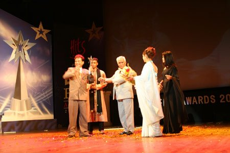 shiva regmi recieving best director award for Sukha dukha